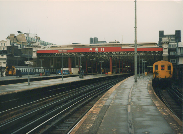 Charing Cross station, before it was built over. Compare this 1986 view with 24510 from eight years later. Two differences stand out: a large office block has been built over the station since this earlier photo was taken, and in the later view there is a new 'networker' train whereas the two electric trains here are both of 1960s vintage. The train to the right of the photo is no. 5220 on the 11.58 service to Dartford. As from December 2009 the vast majority of Dartford trains were rerouted into Cannon Street instead of Charing Cross.